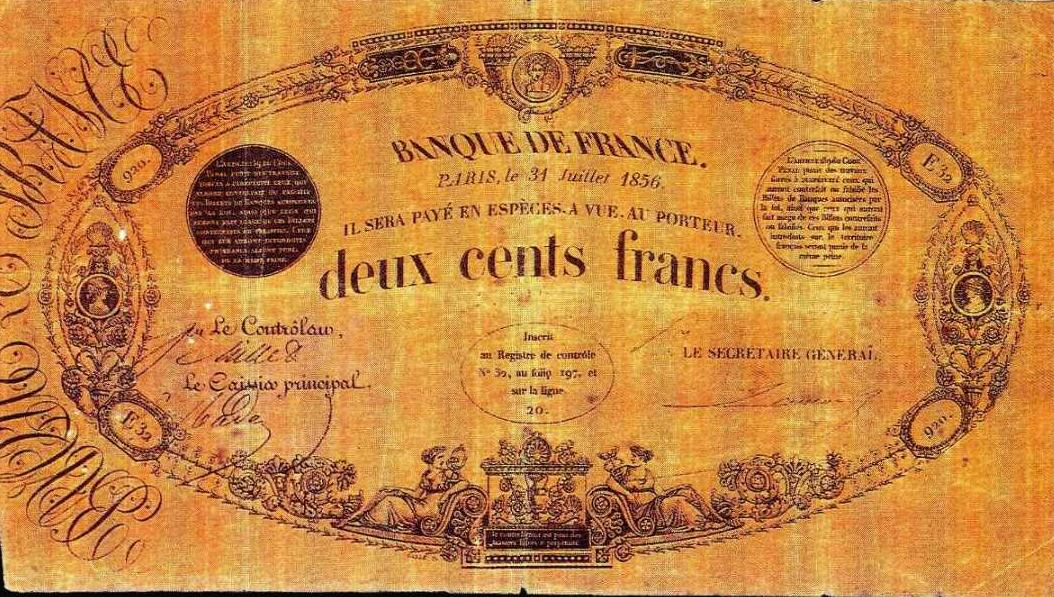 French Banknote 200 francs black 1848